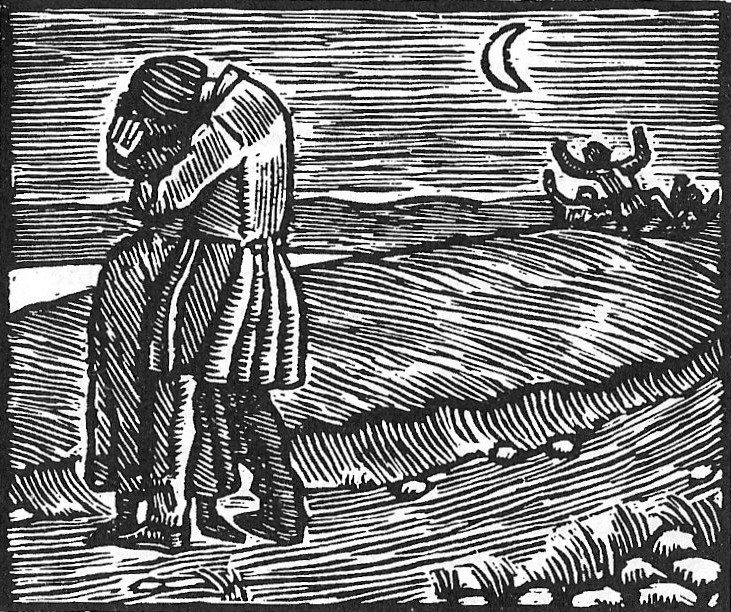 Sali and Vrenchen at the River